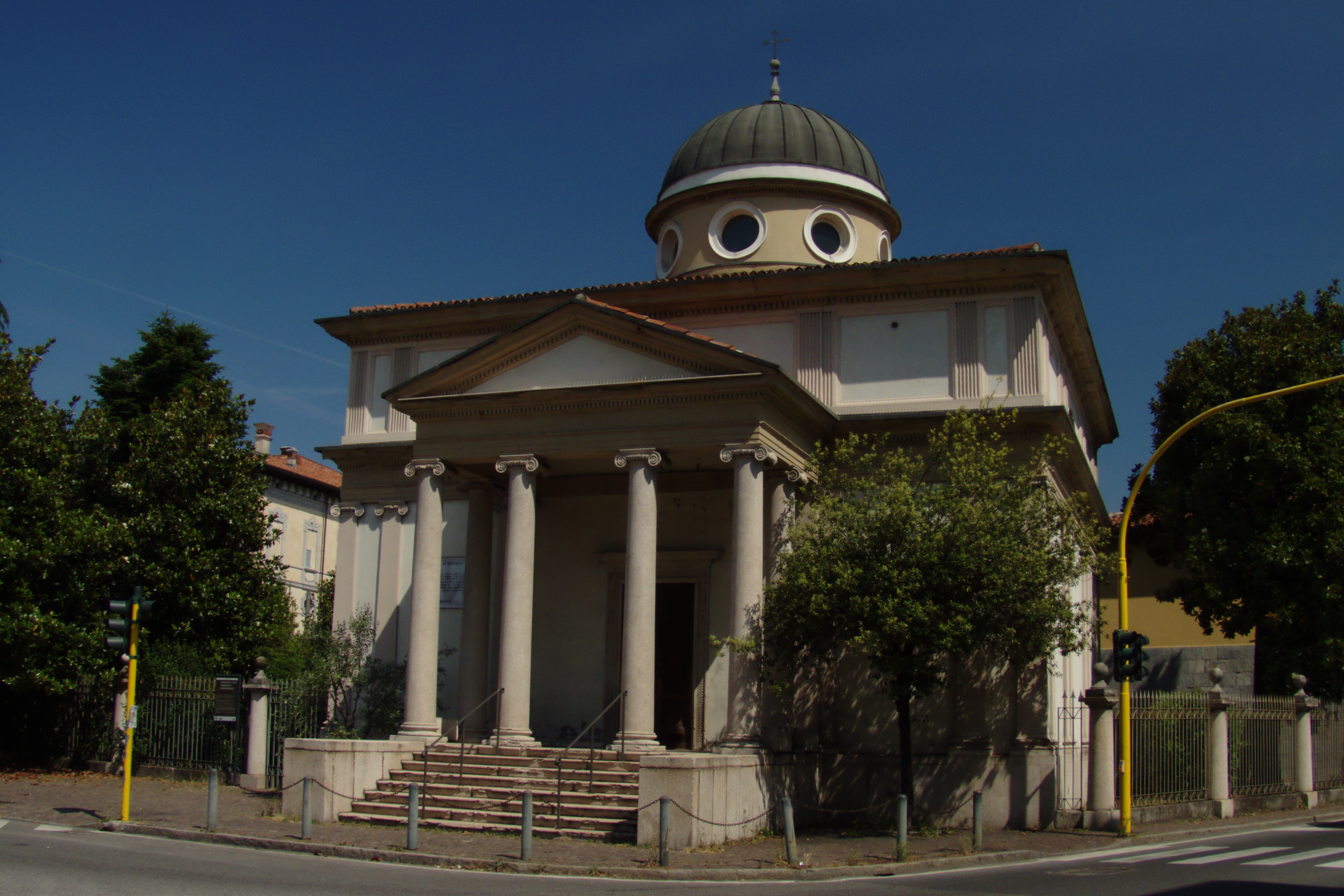 S.Lucius Tempietto, in Brugherio (Moncucco hamlet) - view from Viale Lombardia This is a photo of a monument which is part of cultural heritage of Italy.